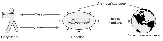 Агентская схема